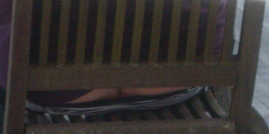 Buttock cleavage.